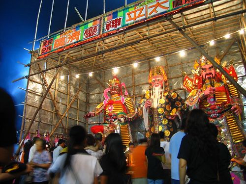 This is a DaJiu Festival festival celebration in Hong Kong